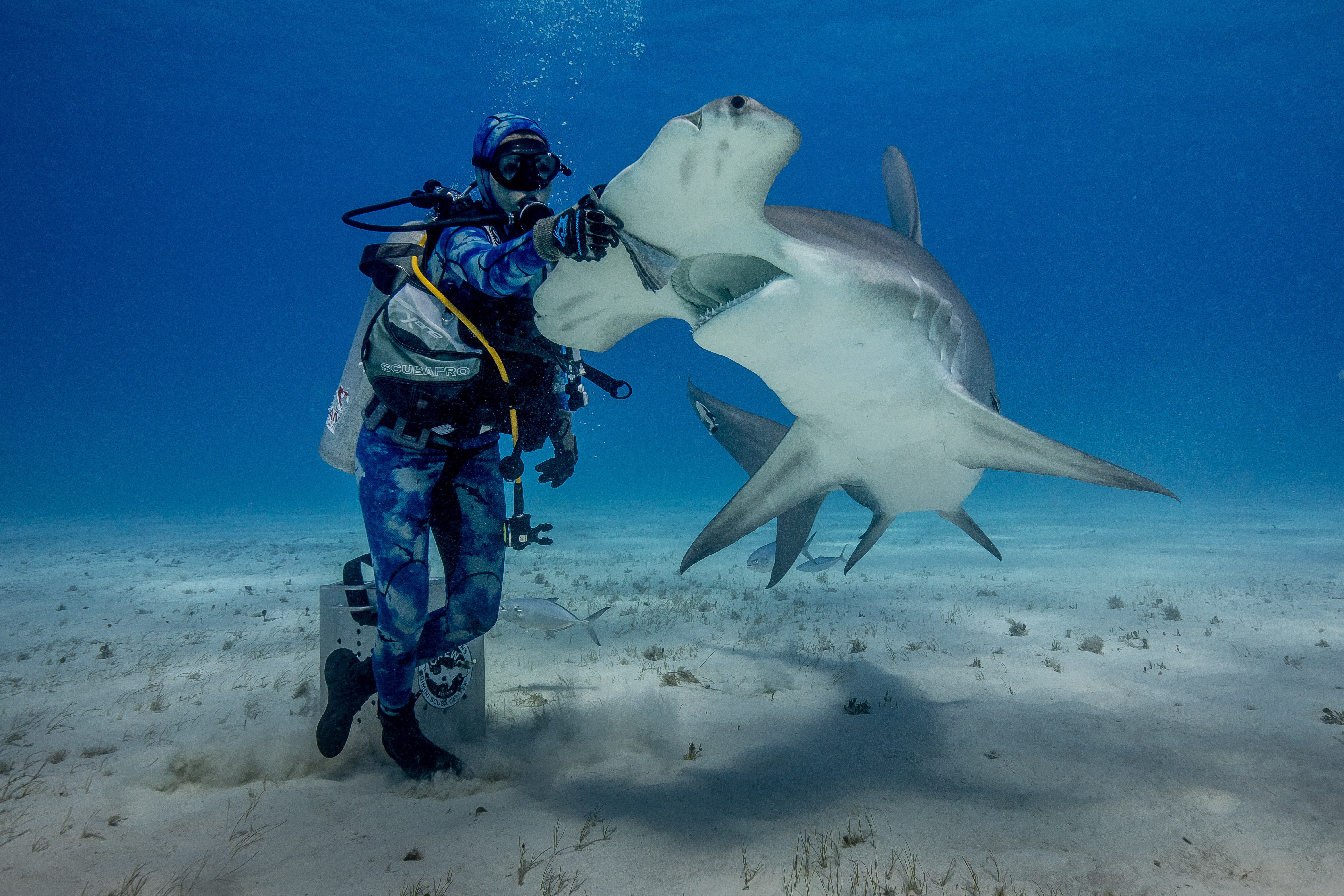 Great hammerhead feeding, Bimini